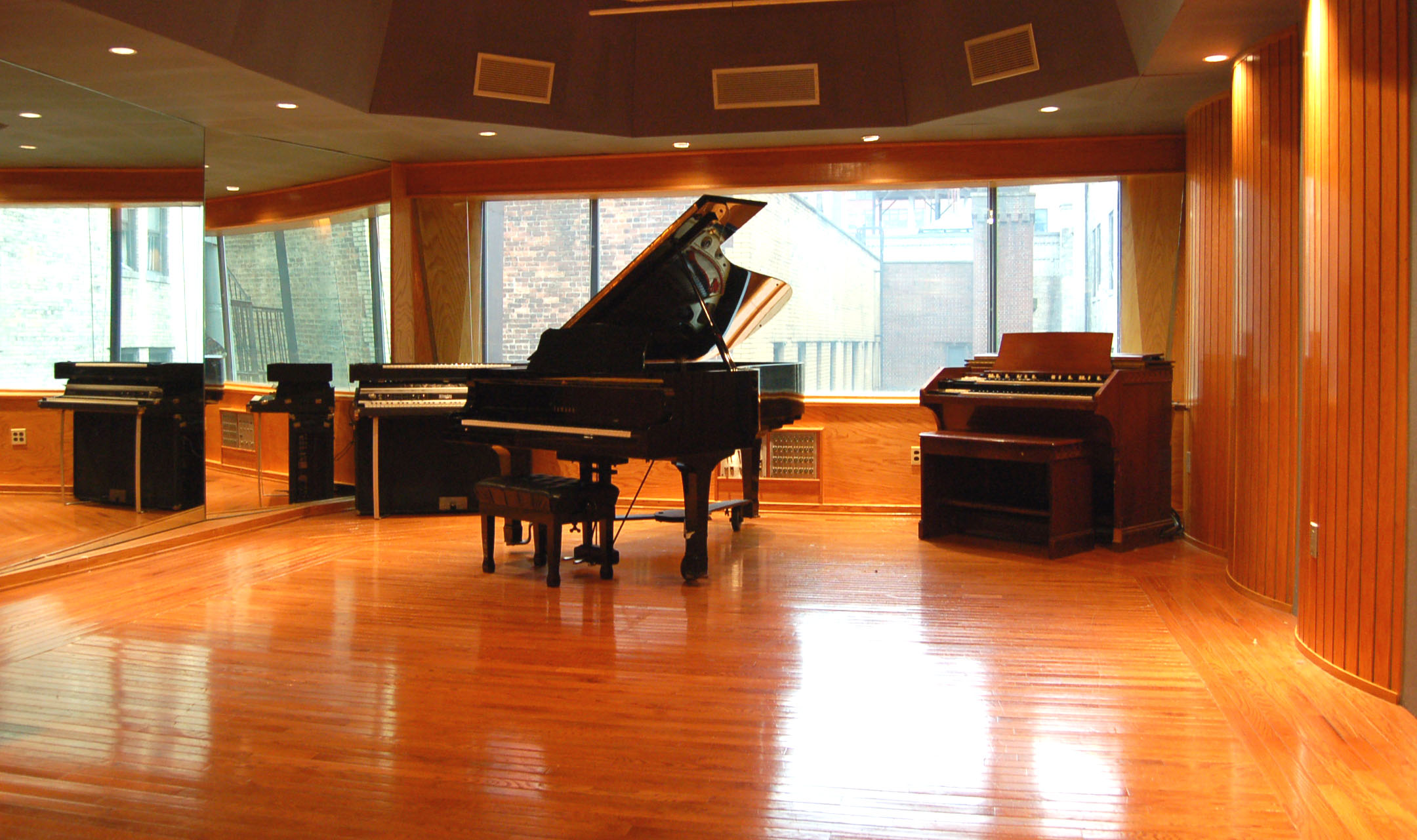 Platinum Sound's K Live Room. NYC, USA